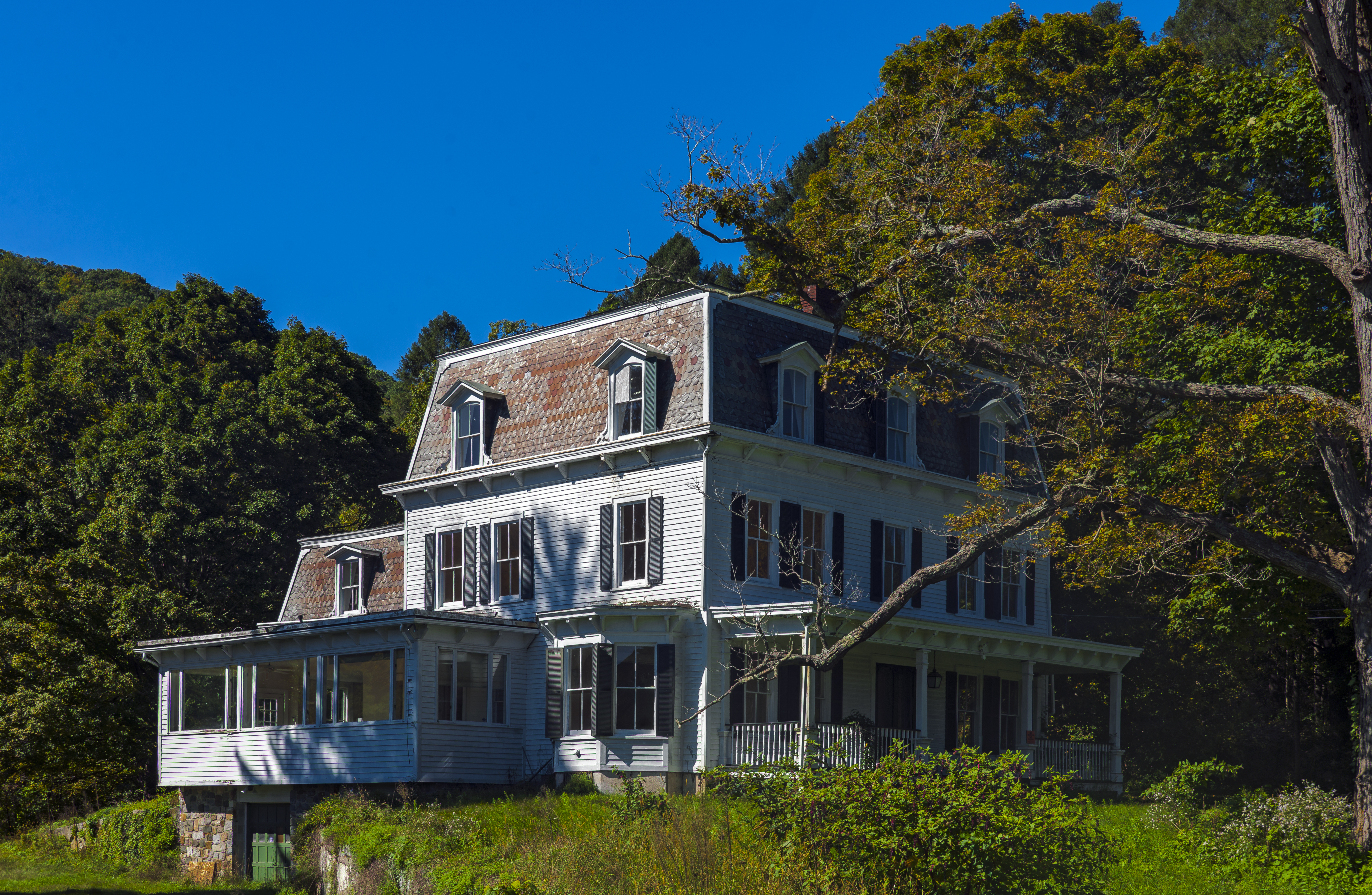 House used as the family home in the 2018 film A Quiet Place, in eastern central Dutchess County, NY, USA, photographed a little over a year after the film was made.While the house was vacant when I took this picture, it might not be in the future, and to spare any homeowner at least some of the visitation that comes with living in a distinctive house that was used as a location for a popular movie, I am not posting the coordinates nor saying which town in Dutchess County it's in.